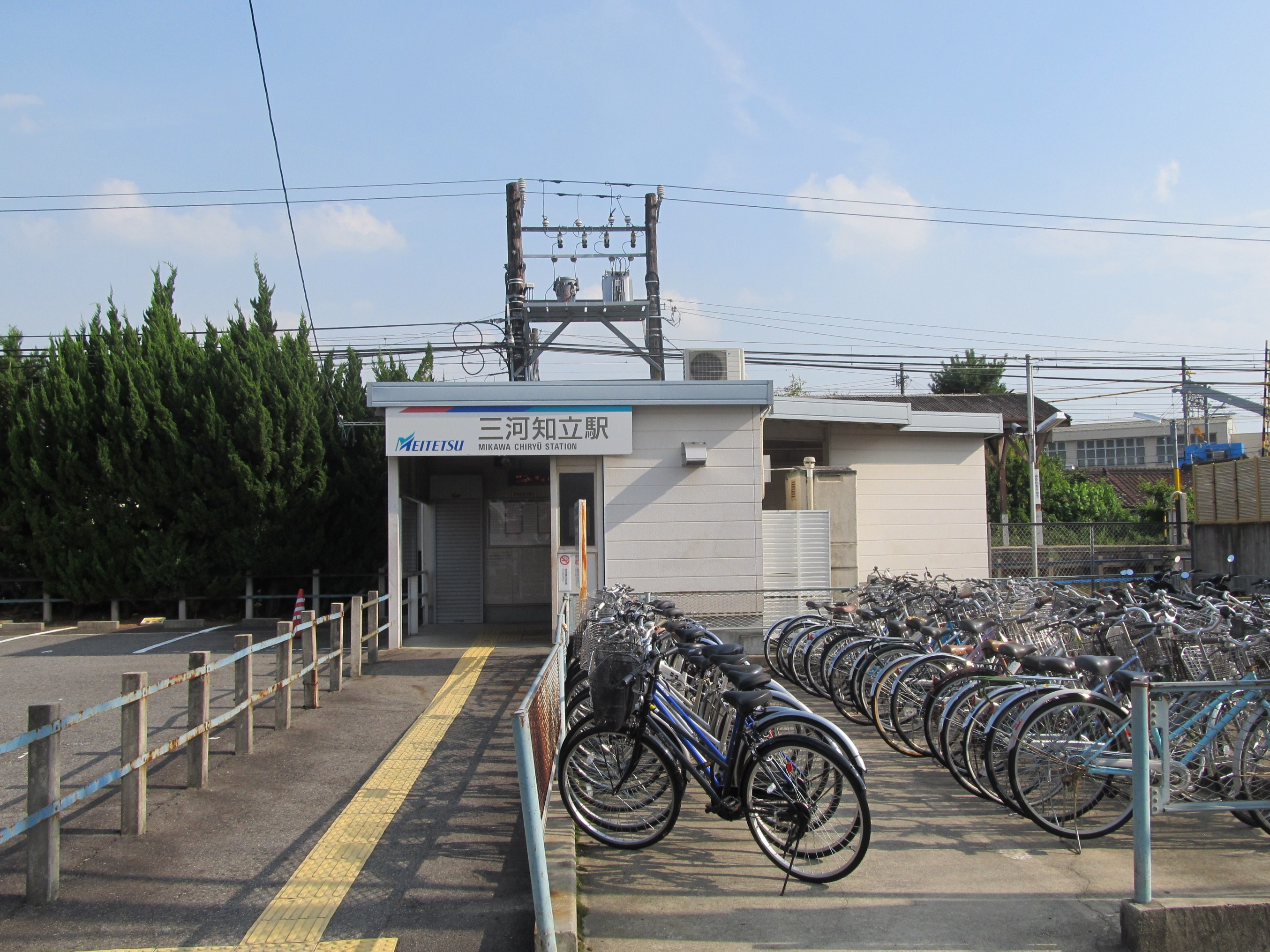 Nagoya Railroad Mikawa Line Mikawa Chiryū Station Building